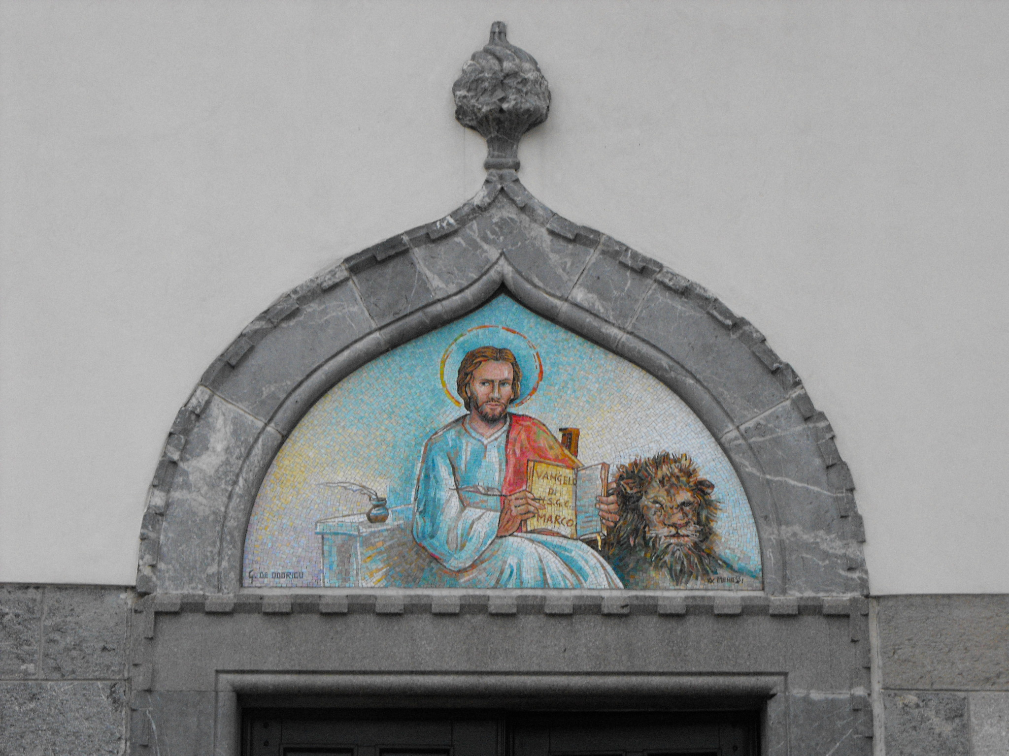 Mosaic on the church of Raspano, village of the Cassacco's municipality, province of Udine in the region Friuli-Venezia Giulia - Italy